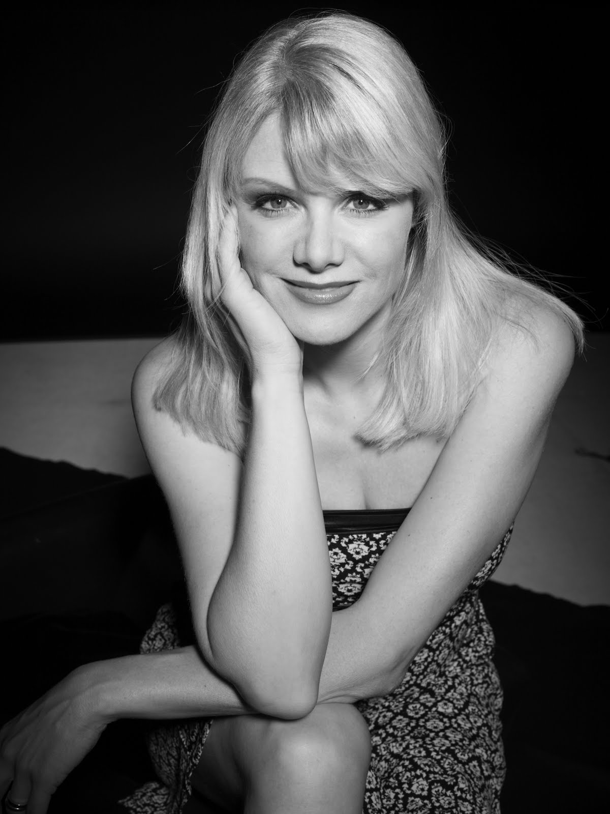 Female television presenters from Germany